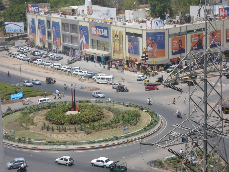 clicked by me - Srikeit(talk ¦ ✉) 12:09, 15 May 2006 (UTC)